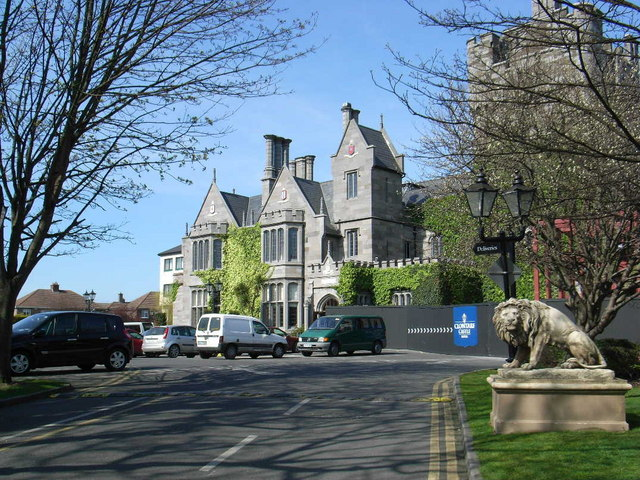 Clontarf Castle, near to Clontarf, Marino, Artane and Dollymount, Dublin, Ireland. Close up view of Clontarf Castle. Currently in use as a hotel, it was originally built in 1172.